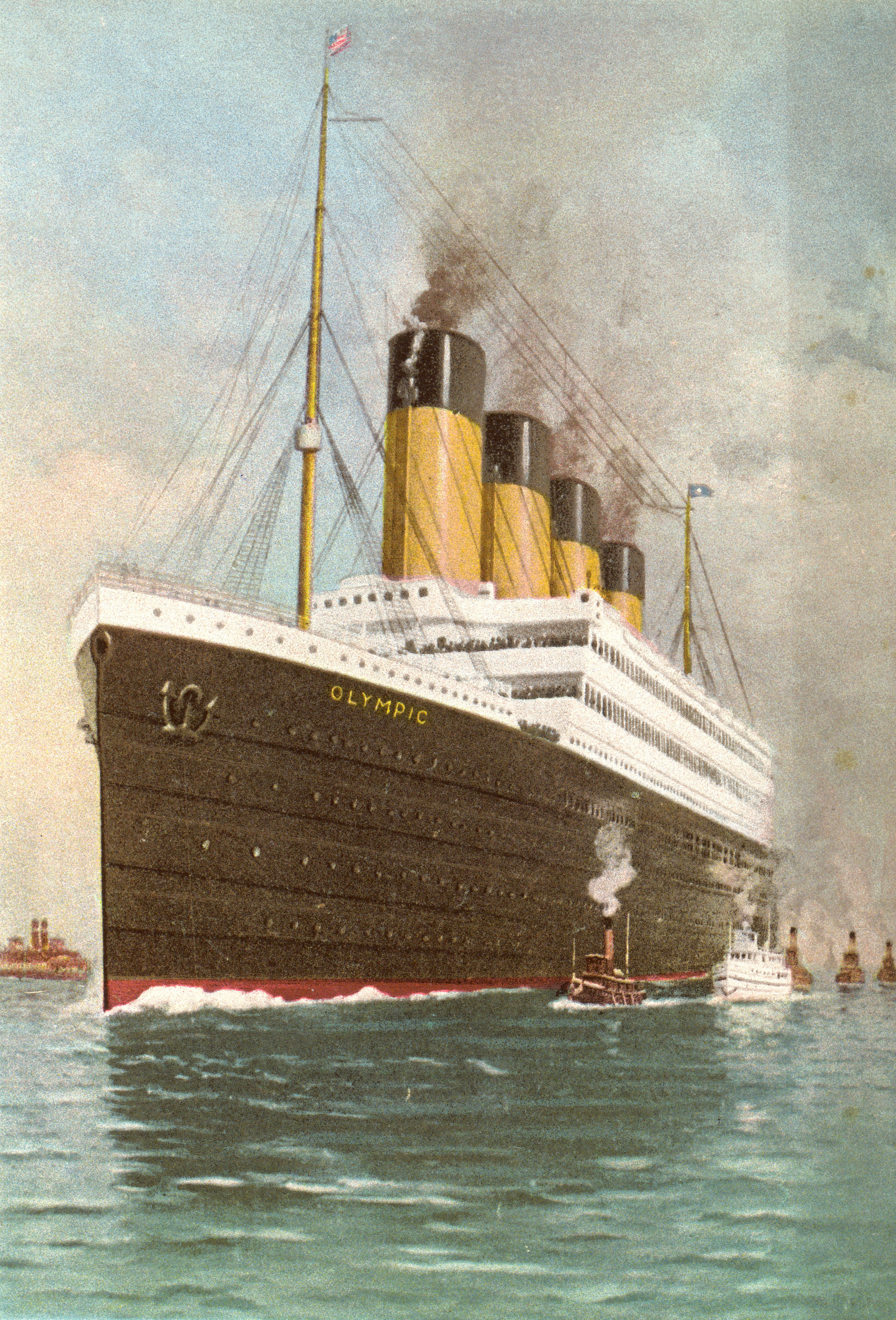 RMS Olympic was the lead ship of the Olympic class ocean liners built for the White Star Line, which also included Titanic and Britannic. Unlike her sisters, Olympic served a long and illustrious career (1911 to 1935), becoming known as "Old Reliable."